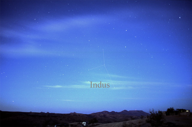 Photo of the constellation Indus, the indian